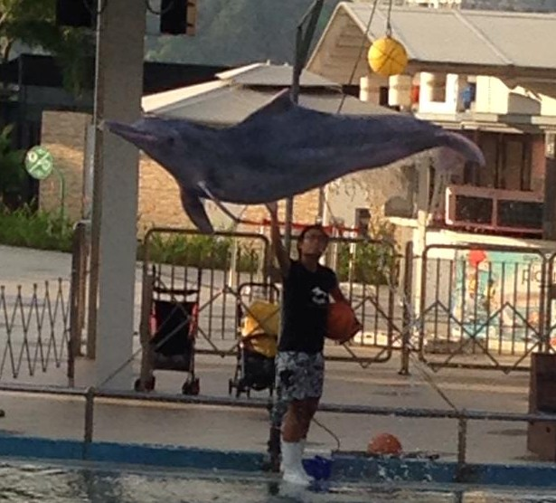 An Indo-Pacific humpbacked dolphin (Sousa chinensis) performing at Underwater World, Singapore.